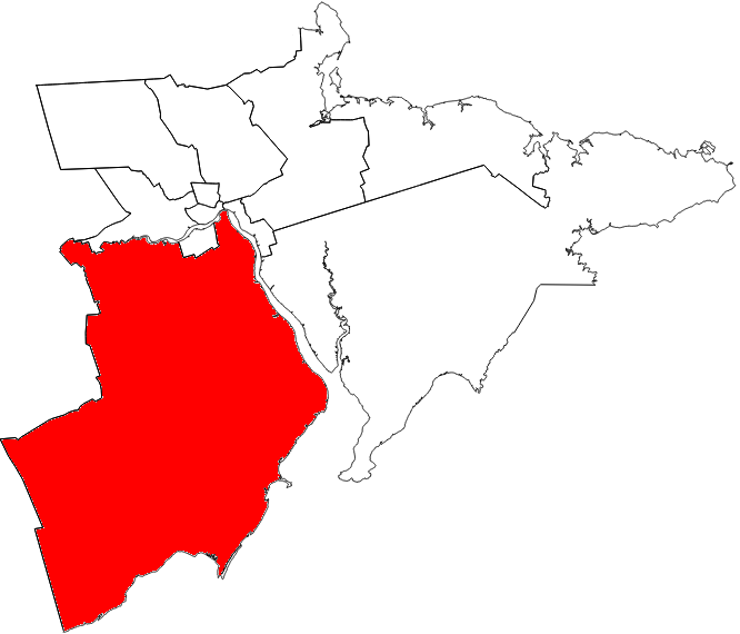 The riding of Albert in relation to other southeastern New Brunswick electoral districts